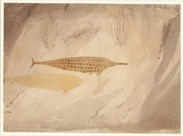 This is a digital image of a watercolour (26.7 x 36.6 cm) by William Westall, 1781-1850. It depicts a cave painting on and is titled, "Chasm Island, native cave painting ". Part of a collection on Westall's drawings. Notes at NLA Reproduced in: Drawings / by William Westall ... London : The Royal Commonwealth Society, 1962, Inscription: Painted by the natives on the rocks in Cavern Island, Gulf of Carpentaria.